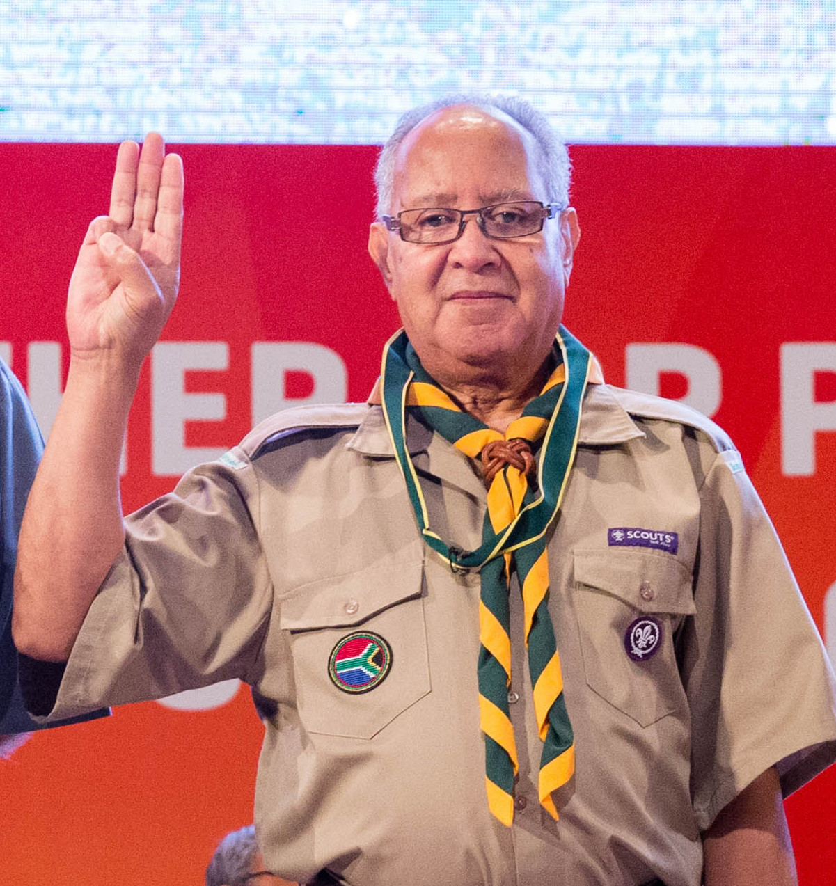 Winston Adams Bronze wolf ceremony